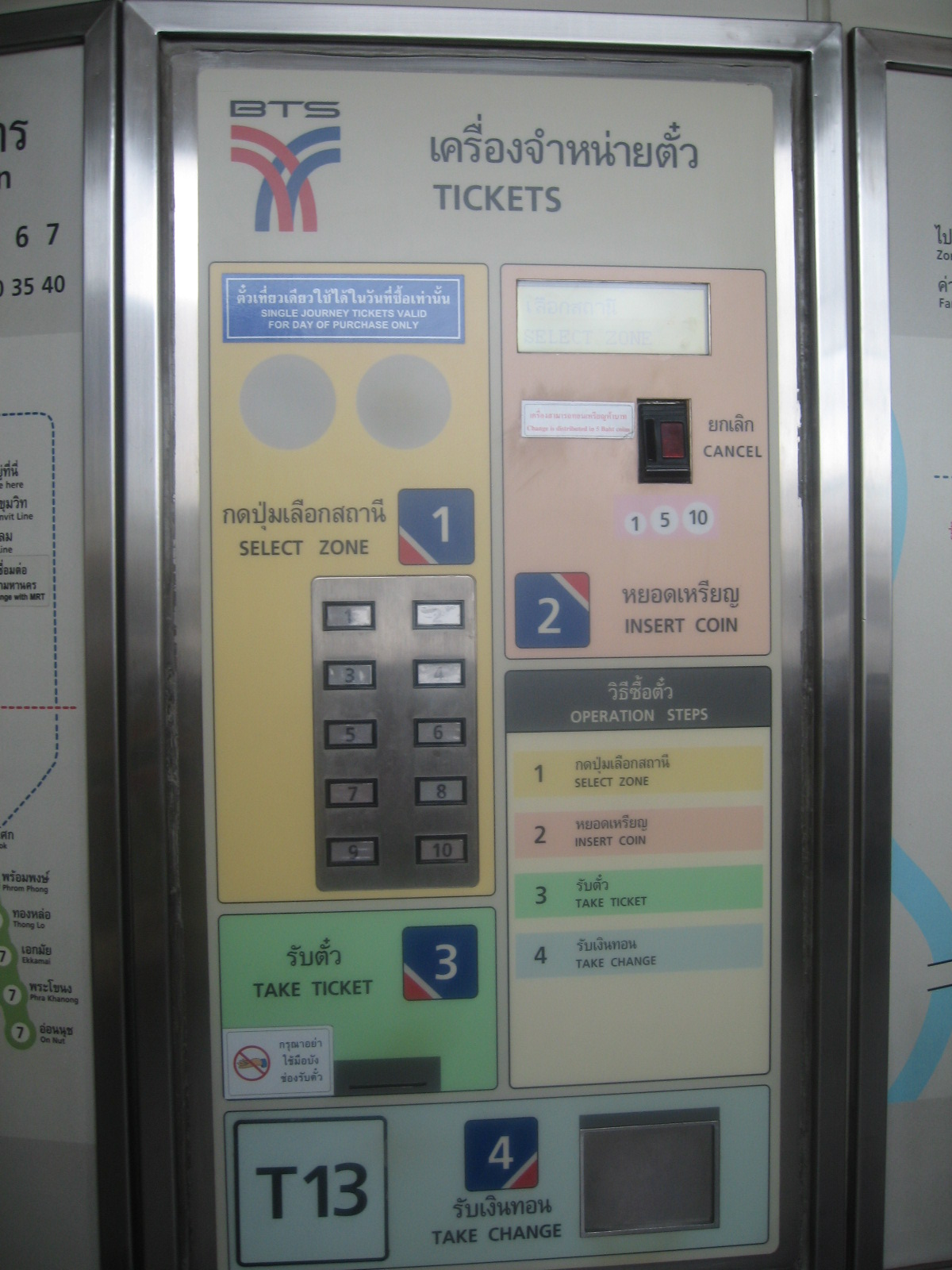 Ticketing machines at BTS Mo Chit Station (Bangkok Skytrain). Taken by Terence Ong in June 2006.